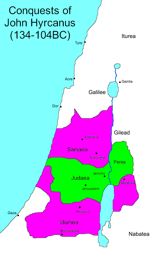 Judea onder Johannes Hyrcanus